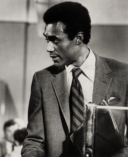 Janet MacLachlan & Calvin Lockhart in Halls of Anger - publicity still (cropped)